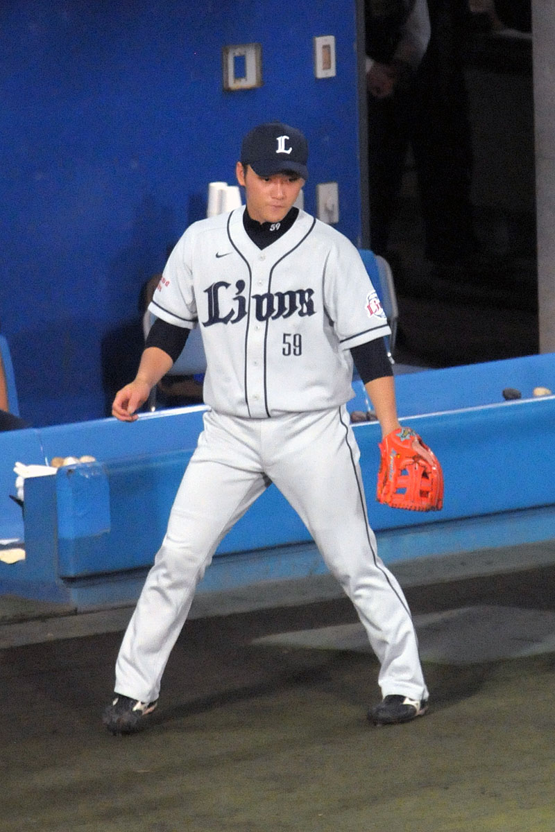 Kyohei Nagae, infielder of the Saitama Seibu Lions, at Akita Prefectural Baseball Stadium.